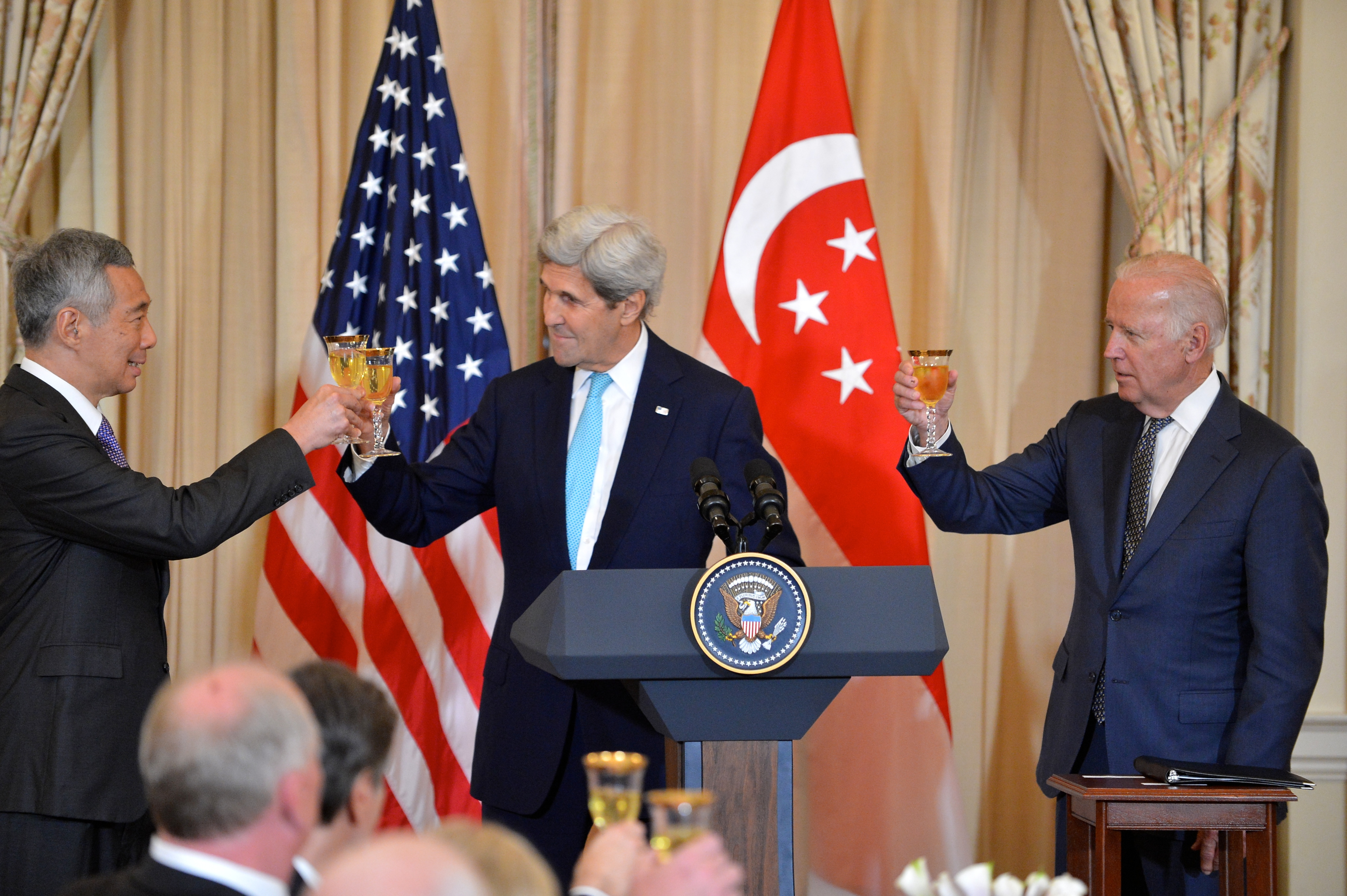 Vice President Joe Biden and U.S. Secretary of State John Kerry toast to His Excellency Lee Hsien Loong, Prime Minister of the Republic of Singapore at a State luncheon in his honor at the U.S. Department of State in Washington, D.C. on August 2, 2016. [State Department Photo/ Public Domain]